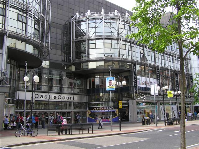 Castlecourt Shopping Centre It is located to the north of the City Hall